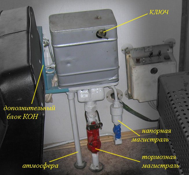 Electric valve of autostop EPK-150E